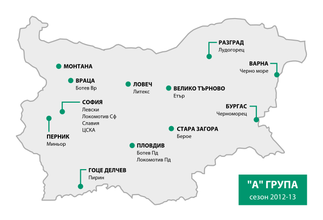 Map of the cities with teams in the Bulgarian A Football Group.